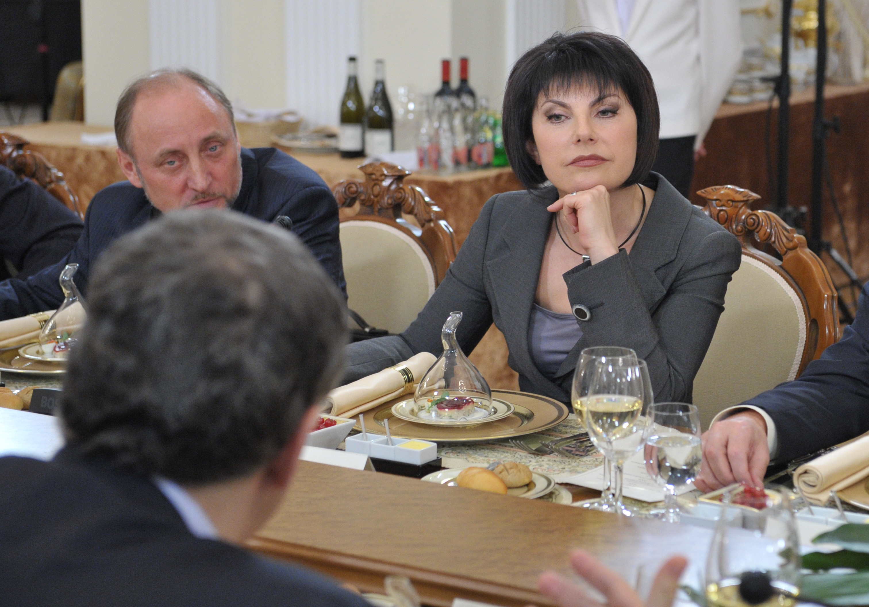 Novye Izvestia editor-in-chief Valery Yakov and NTV TV channel's news service editor-in-chief Tatyana Mitkova during Russian Prime Minister Vladimir Putin's meeting with heads and chief editors of Russian television companies and printed media at Novo-Ogaryovo residence.